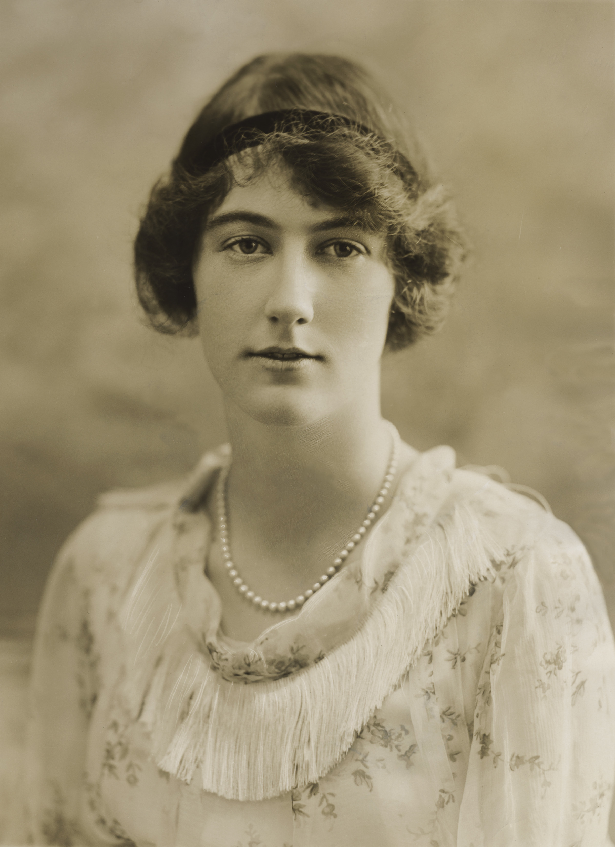 Depicted person: Dorothy Macmillan – English noblewoman